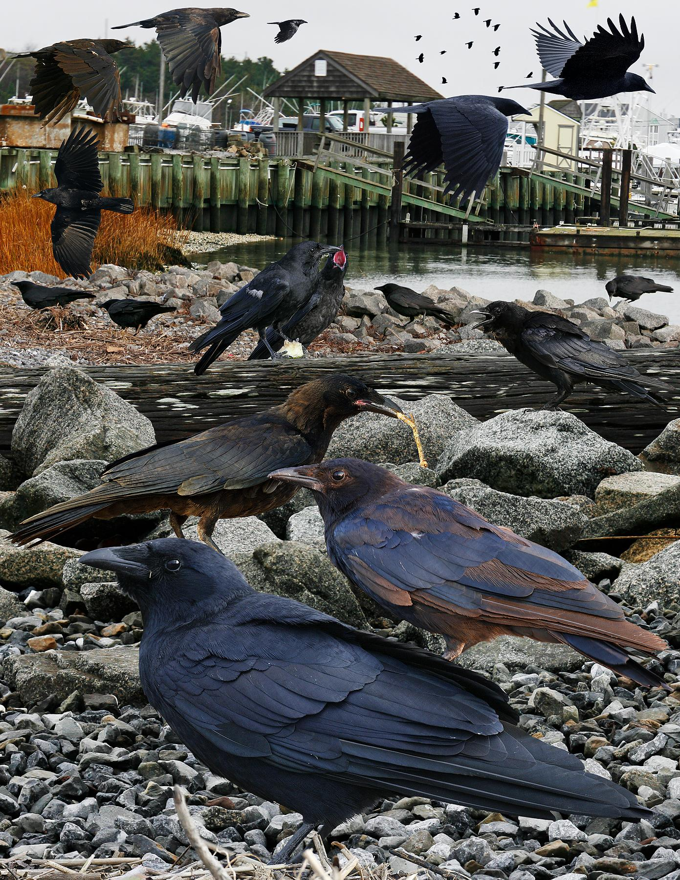 Fish Crow From The Crossley ID Guide Eastern Birds